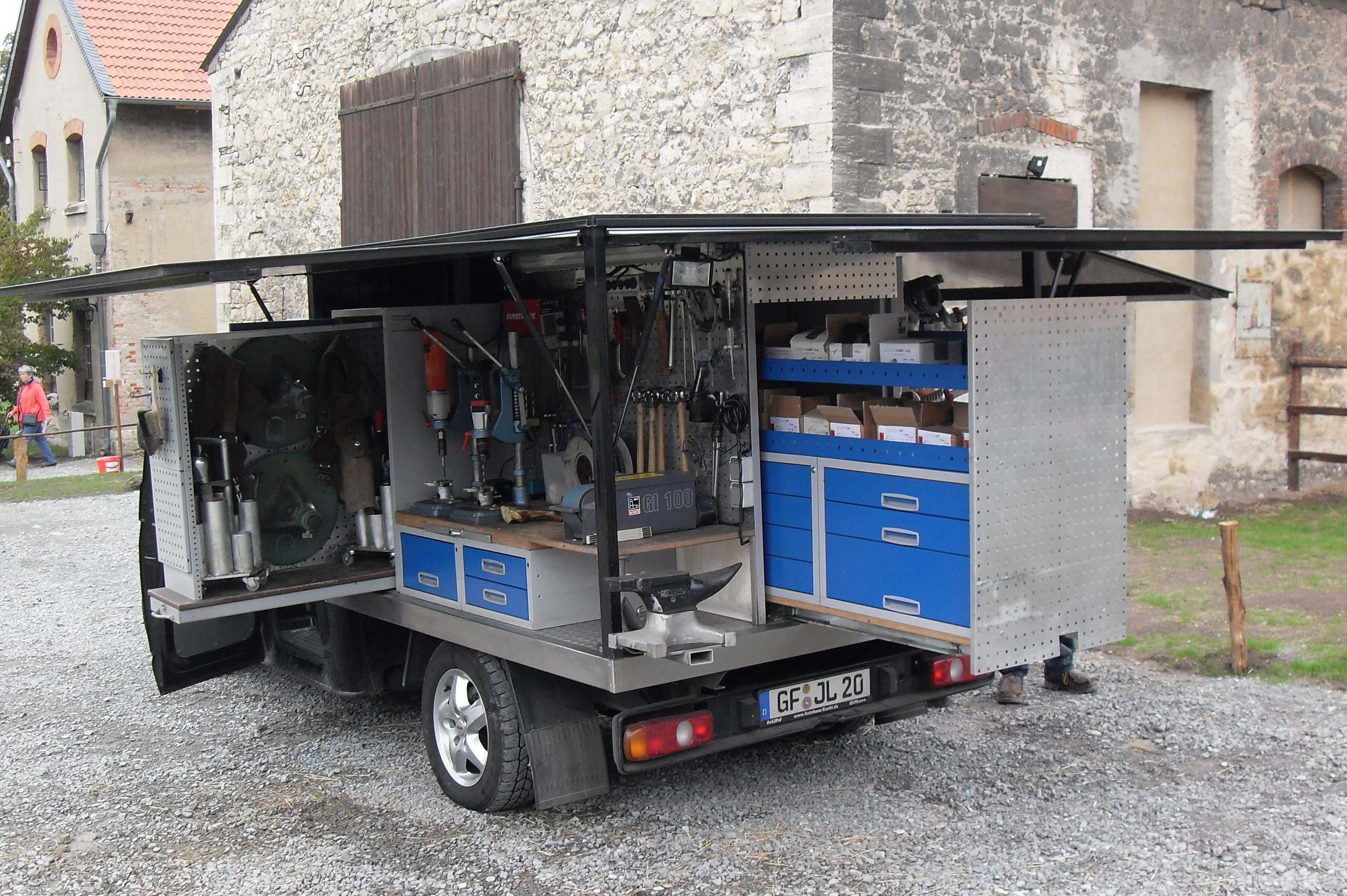 mobile blacksmith workshop